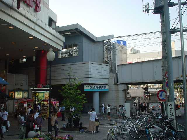 Yokosuka Chuo station, way out to Hirasaka street